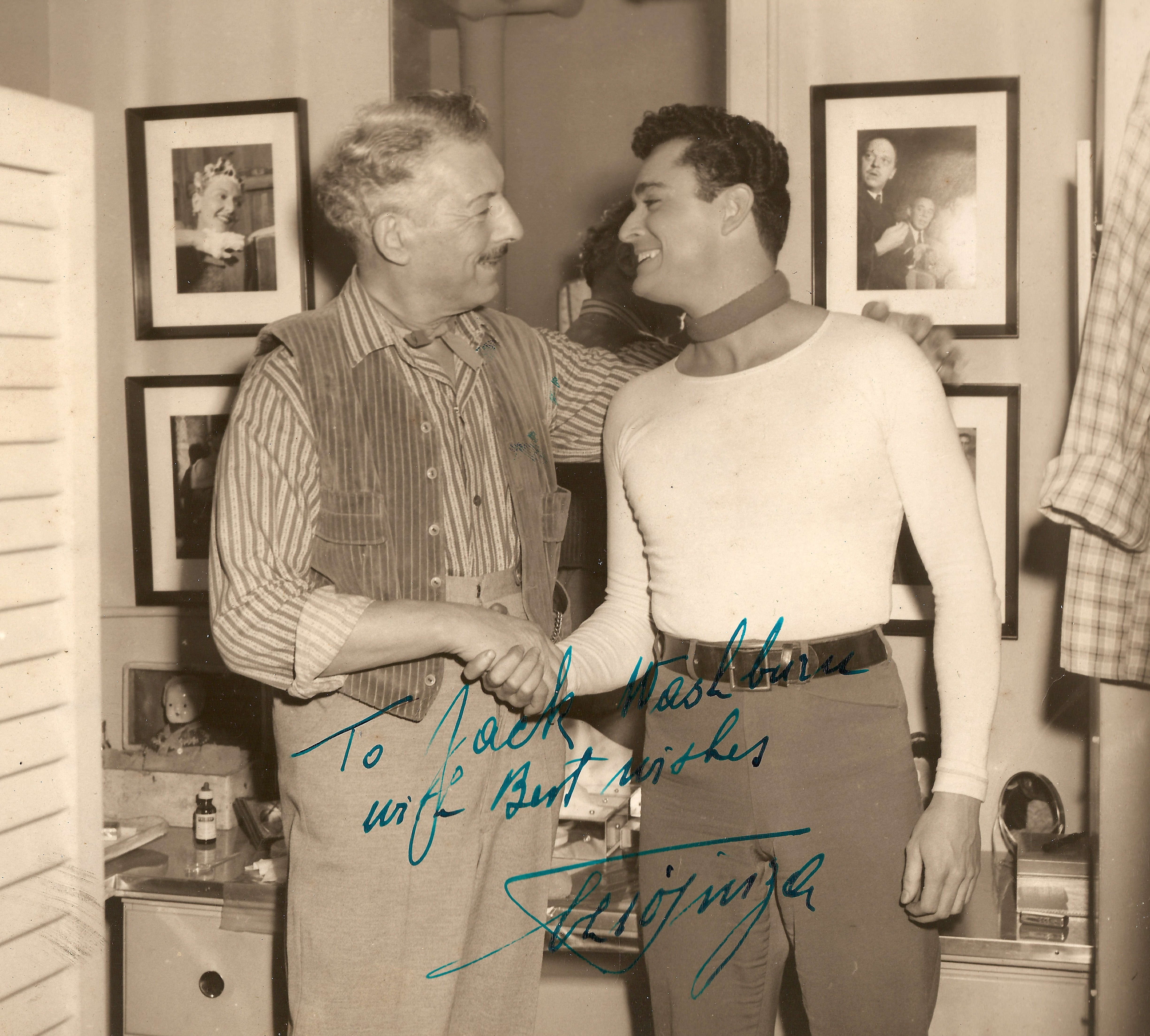 Jack Washburn with Italian opera singer Ezio Pinza